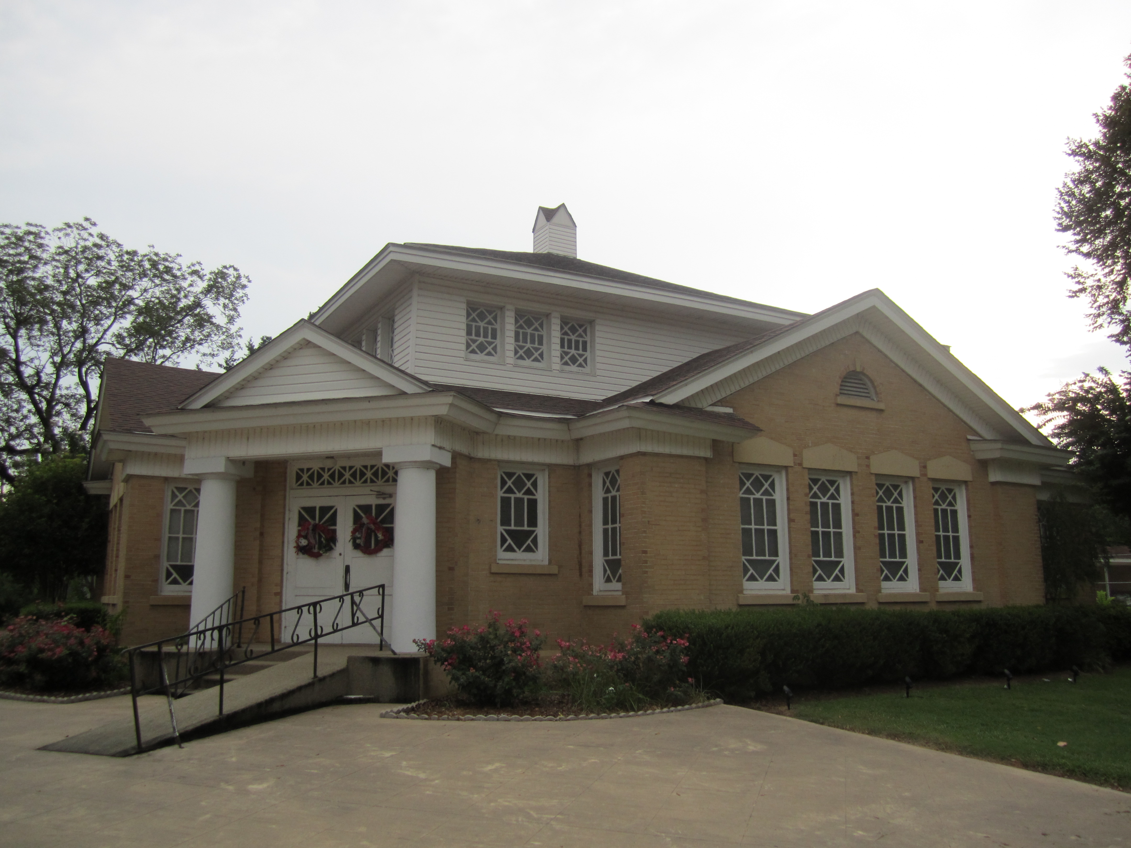 I took photo in Gilbert, LA, with Canon camera.